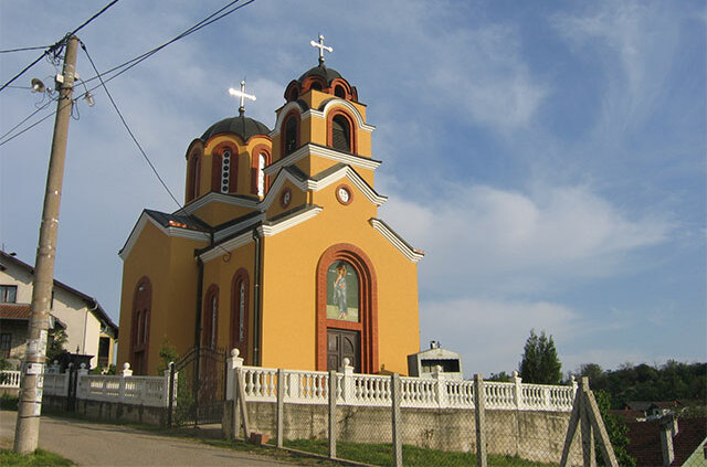 Church in Doljasnica